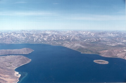 Aerial photo of Penkigney Bay, Providensky District, Chukotka